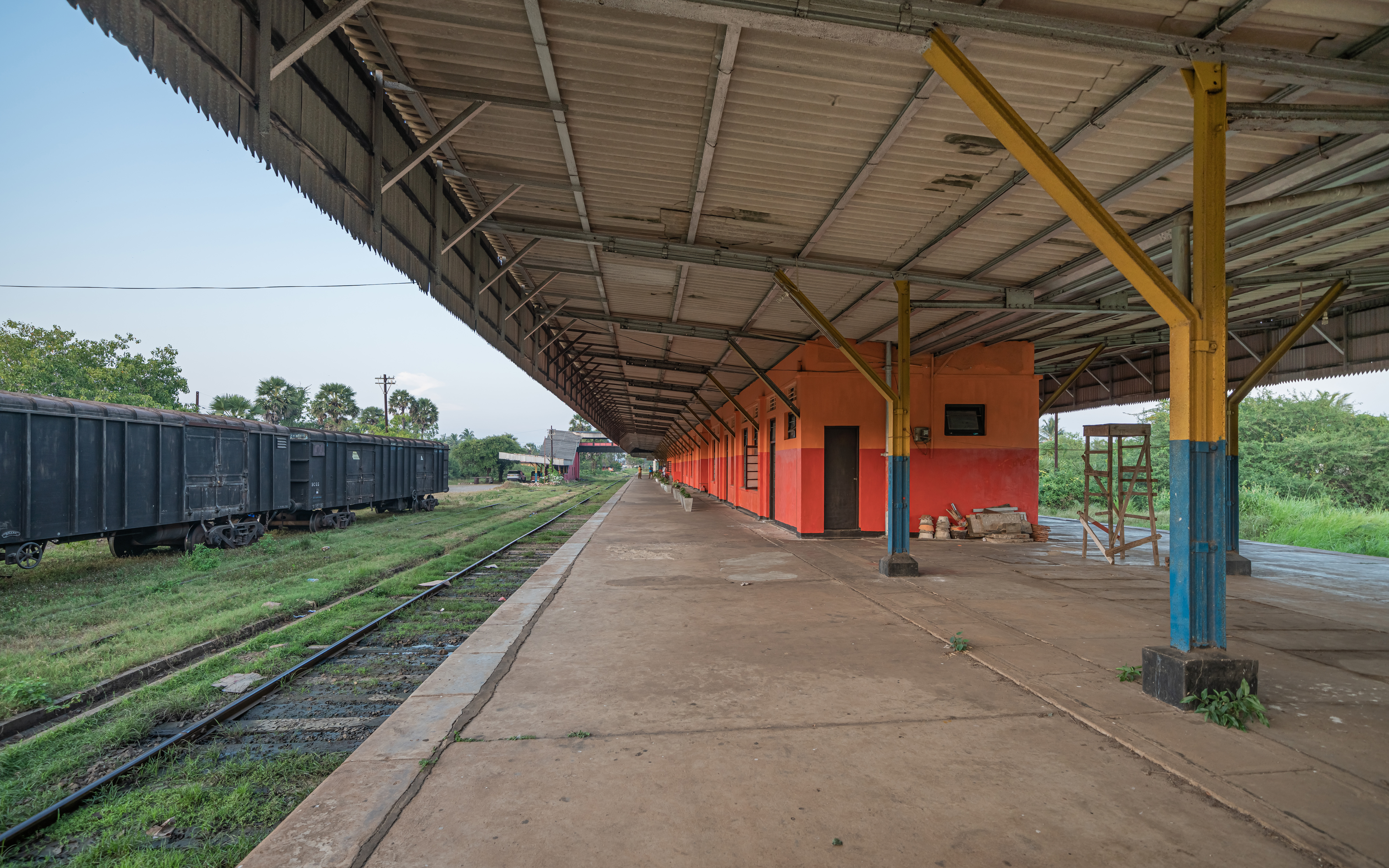 Platform of Puttalam railway station in Puttalam, Sri Lanka